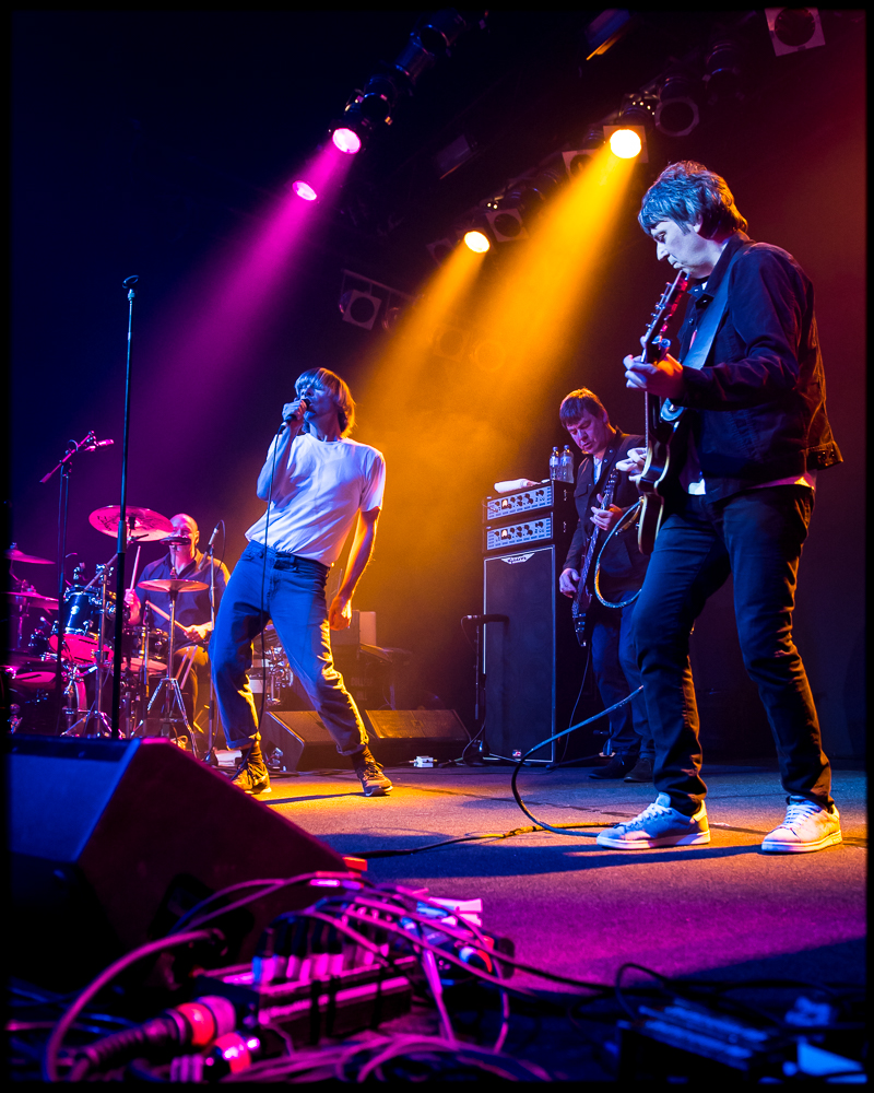 The Charlatans live at The Powerstation, Auckland, New Zealand, 2018 | © Amanda Ratcliffe